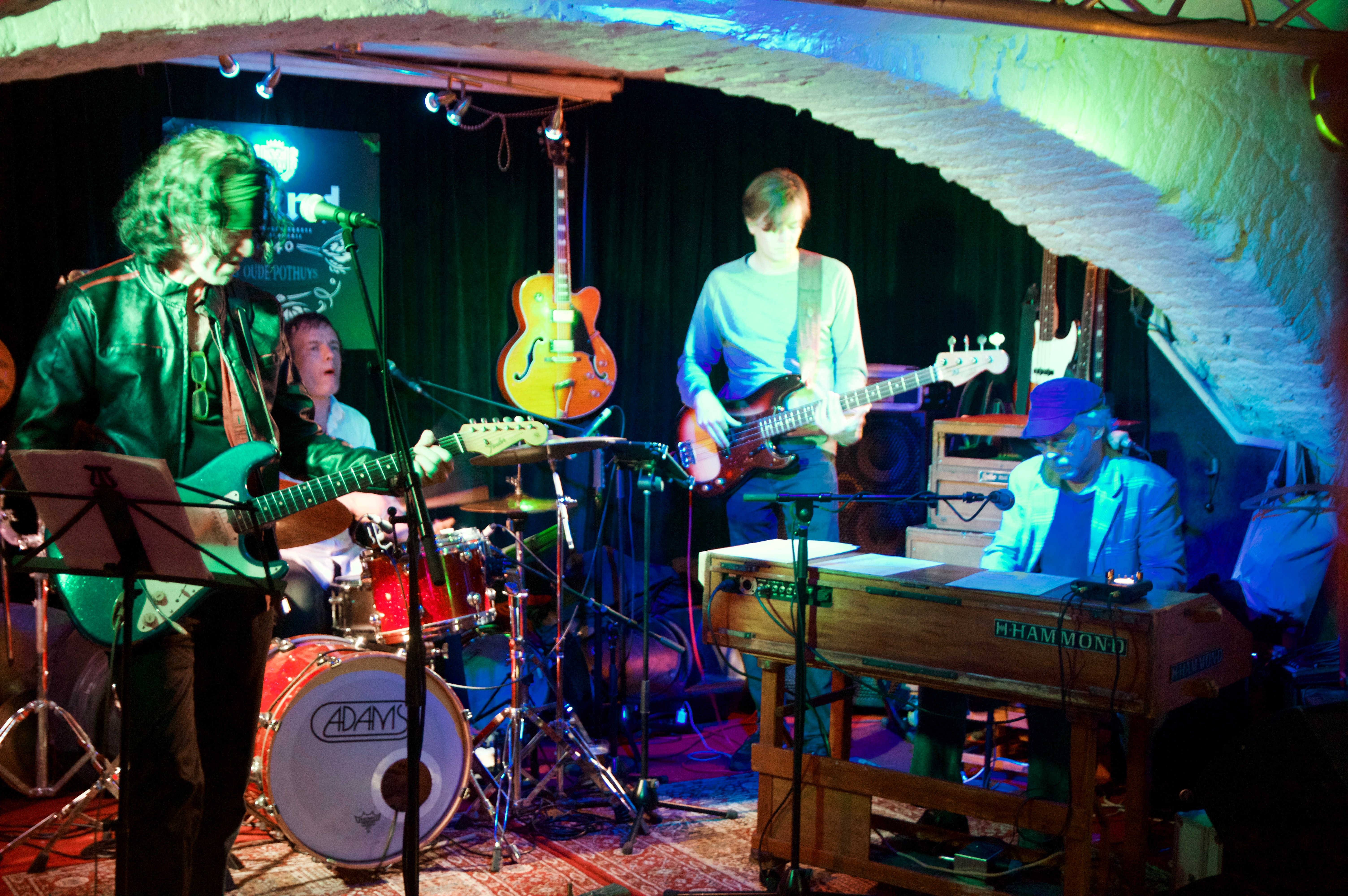 Erwin van Ligten band performs in 't Oude Pothuys te Utrecht at March 30, 2018 Jens Dreijer, bassguitar Arthur Lijten, drums Willem Swikker, Hammond Erwin van Ligten, guitars